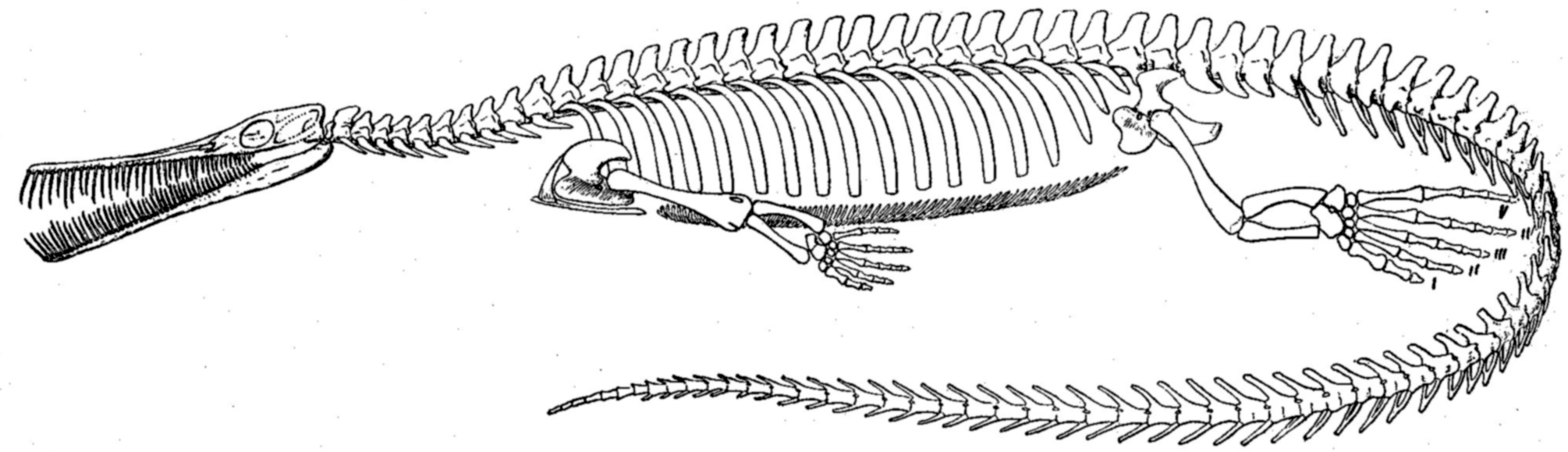 The aquatic reptile Mesosaurus from the early Permian of South America and Africa. Restoration of skeleton. After: Mac Gregor, J.H. (1908) Mesosaurus brasiliensis nov. sp. IN: White, I.C. (1908) Commission for Studies on Brazilian Coal Mines - Final Report; (Bilingual report, Portuguese & English), Imprensa Nacional, Rio de Janeiro, Brazil, 617 p.: Part II, pp. 301-336.